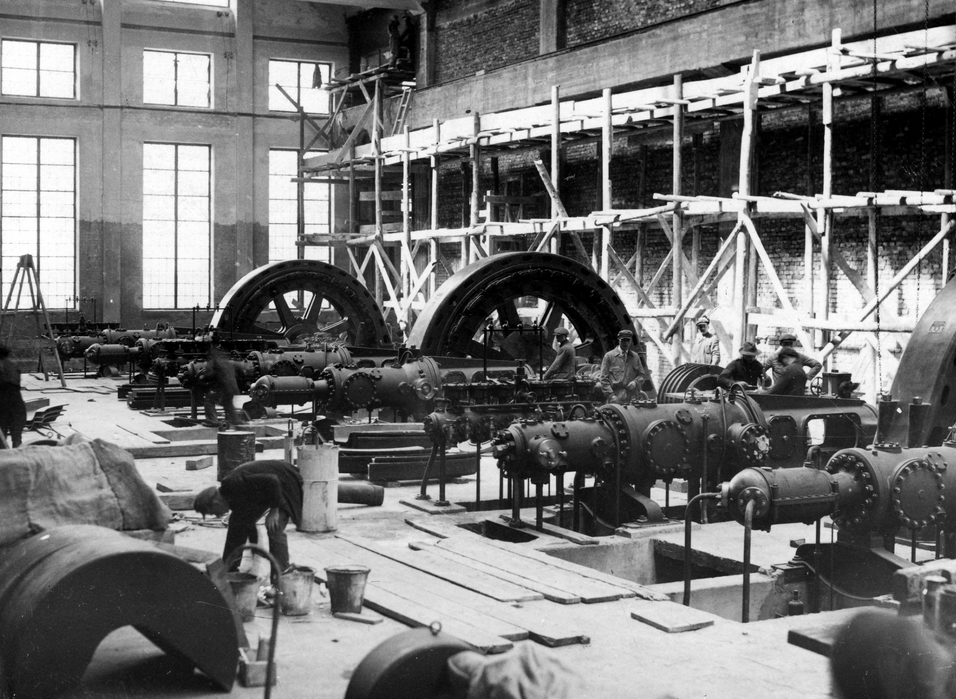 Państwowa Fabryka Związków Azotowych w Mościcach, nitrogen compressors